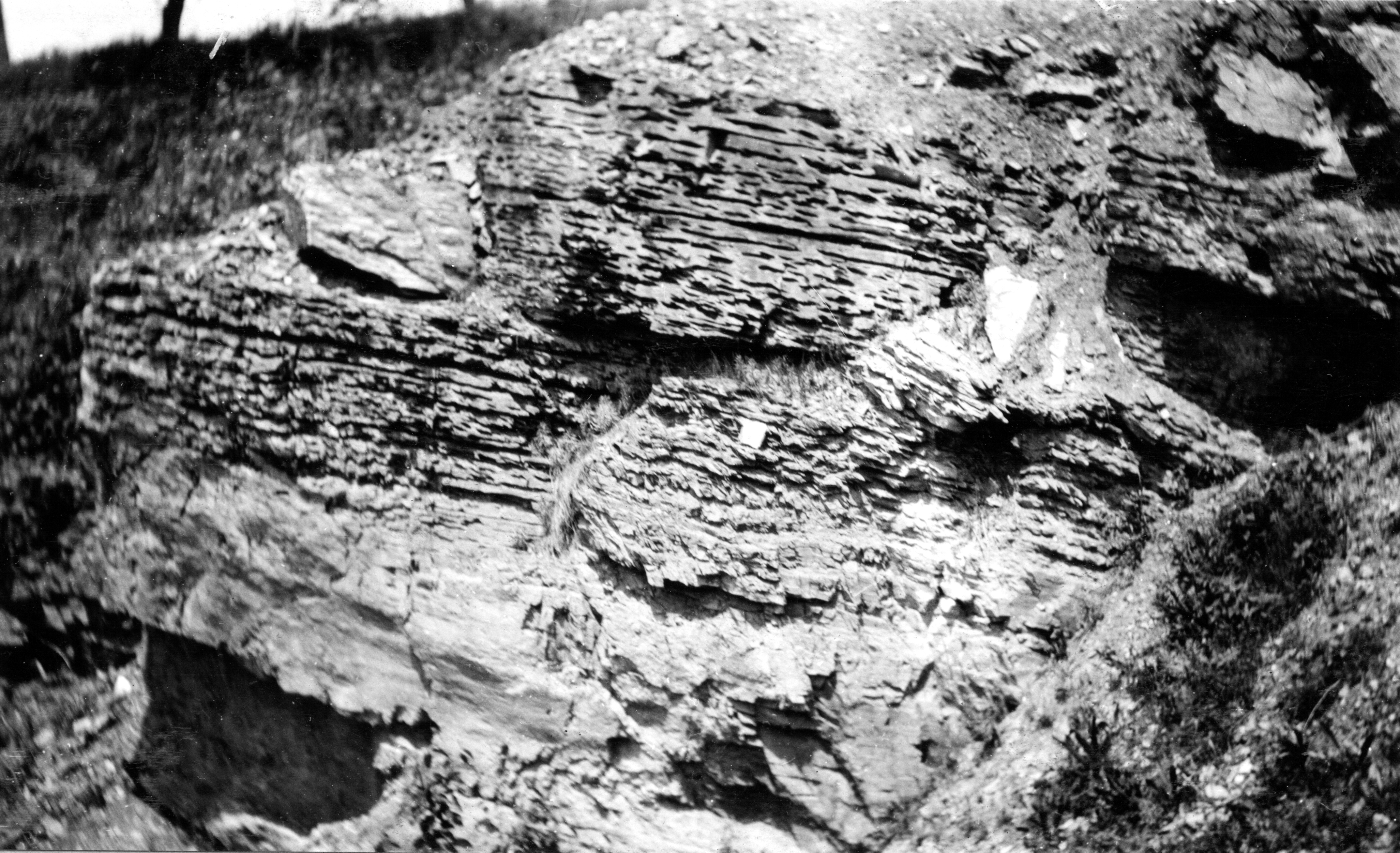 Reticulately weathered argillaceous-banded limestone of upper member of Kinzers formation in railroad cut south of quarry of Thomasville Stone and Lime Co., beds generally fossiliferous. York County, Pennsylvania. Circa 1930. Plate 5-A, U.S.Geological Survey Professional paper 204. 1944.